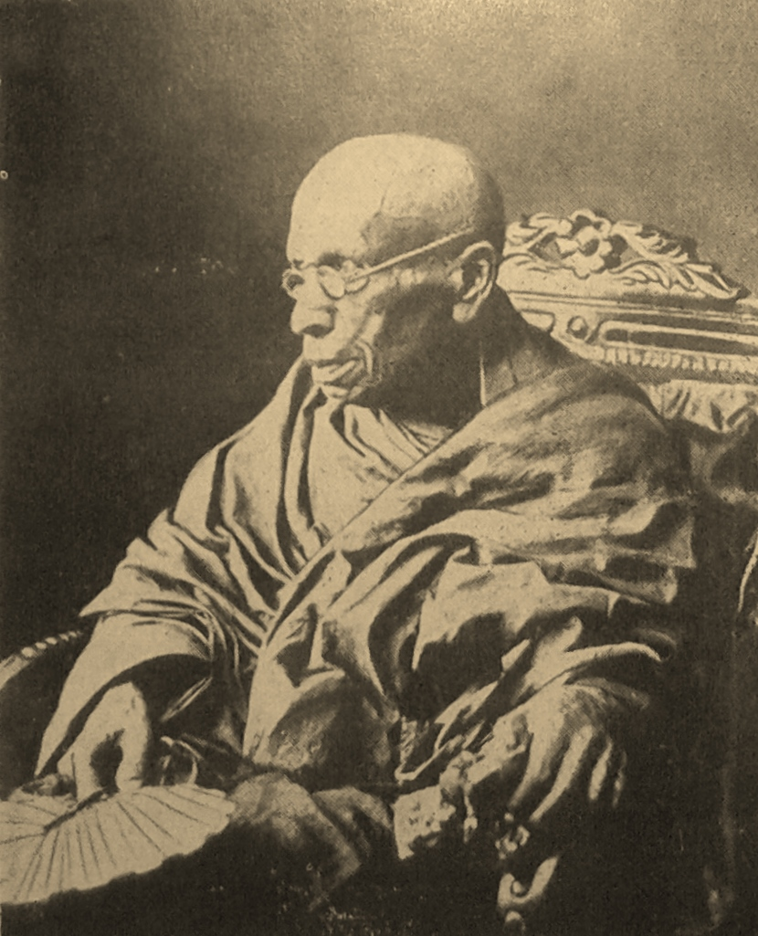 Photograph of Most Venerable Hikkaduwe Sri Sumangala Thera.